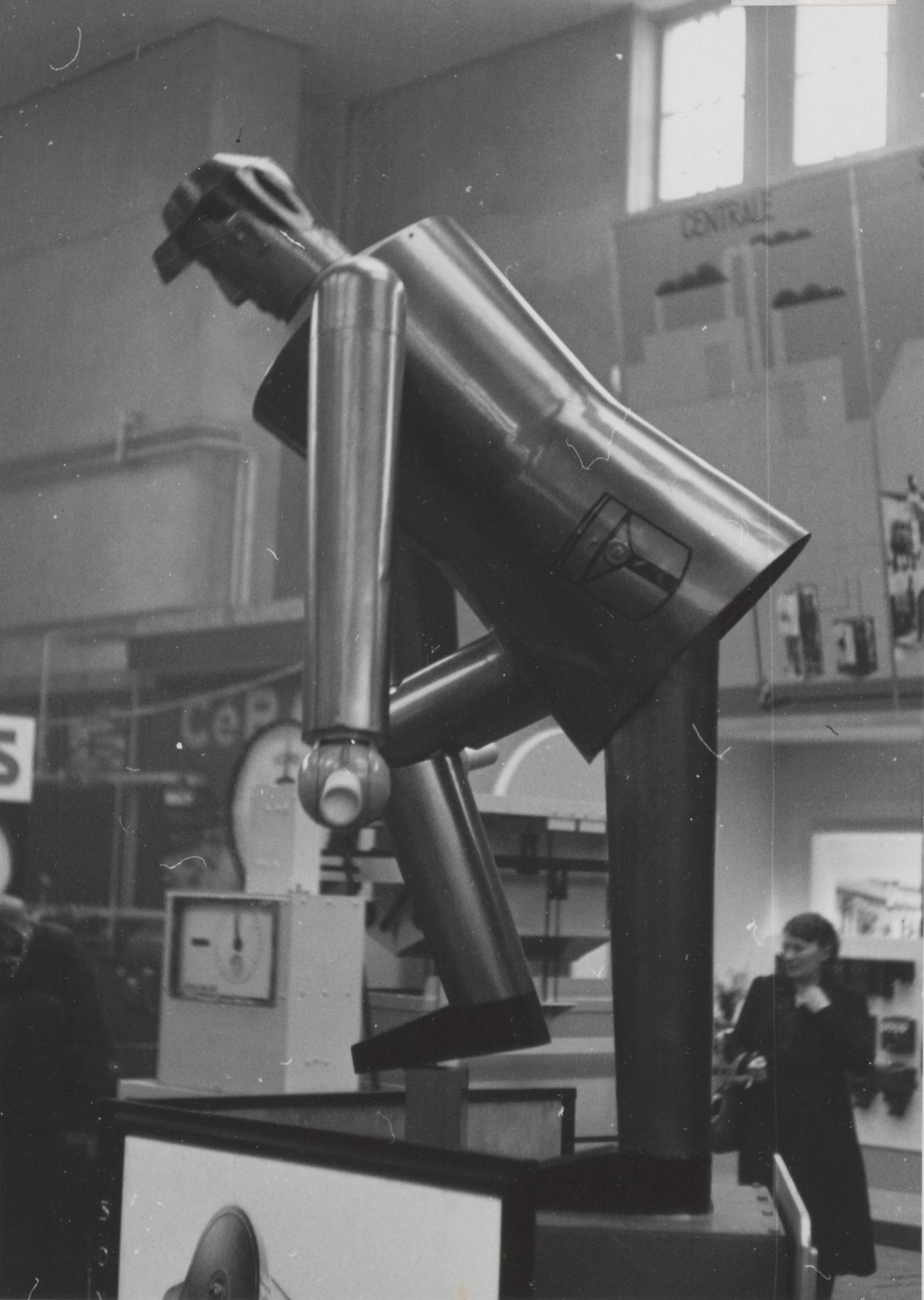 Robot at machine fair in Jaarbeurs Utrecht, the Netherlands (1941). Photo by unknown photographer from Stapf Bilderdienst